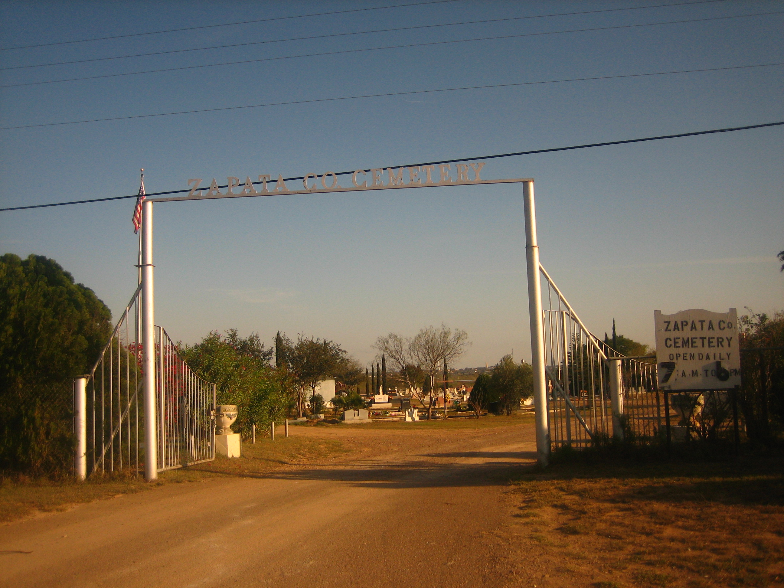 I took photo on Jan. 17, 2009.Billy Hathorn (talk) 04:11, 18 January 2009 (UTC)